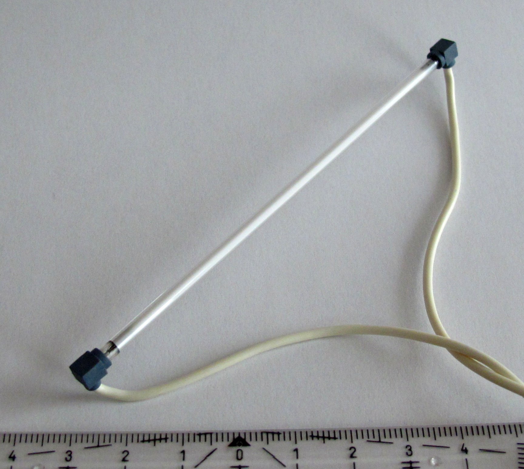 Cold cathode fluorescent lamp (CCFL) for LCD background light